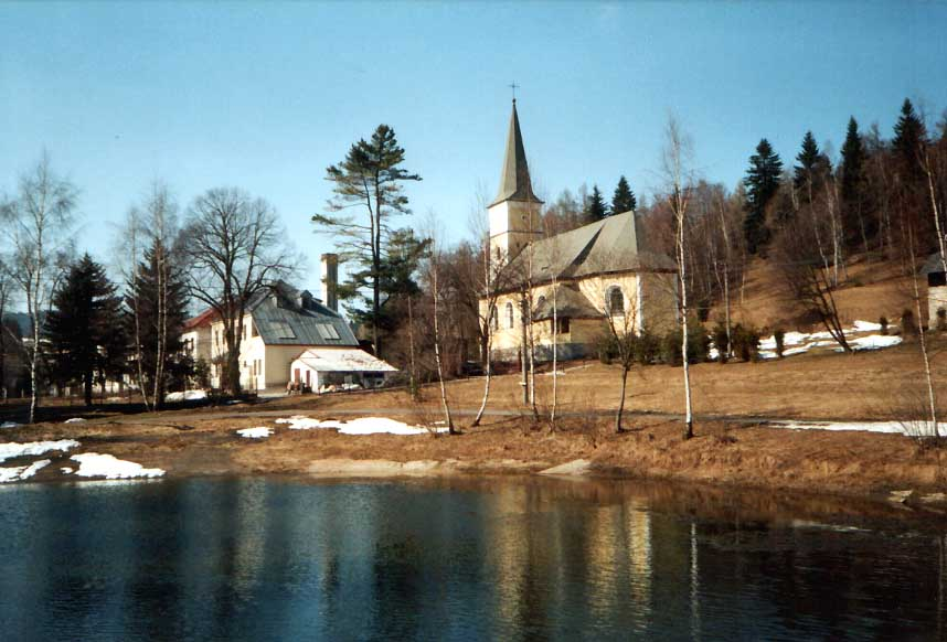 Church of the Visitation in Rudné (Trinksaifen), a part of Vysoká Pecmunicipality, Karlovy Vary District, Czech Republic